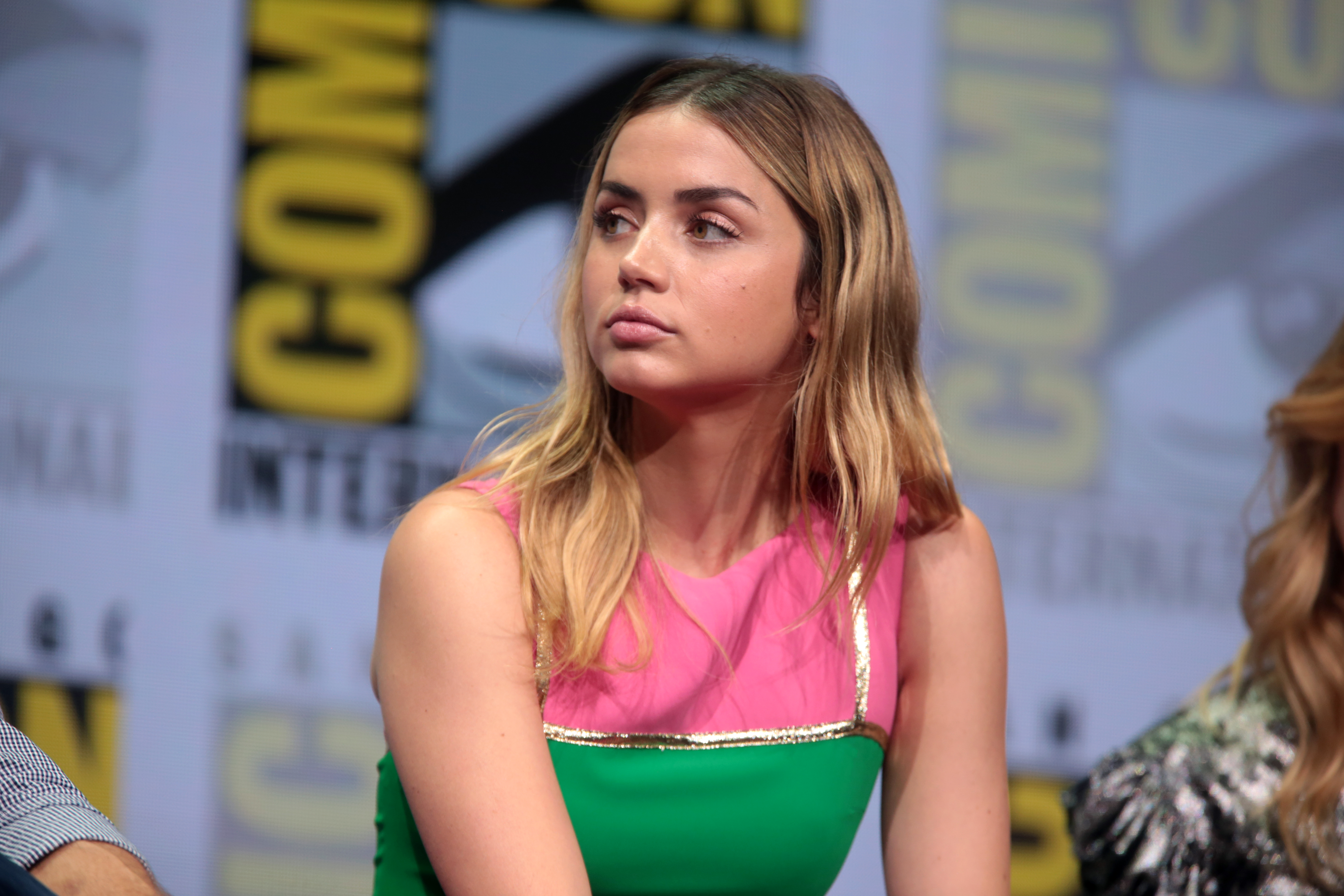 Ana de Armas speaking at the 2017 San Diego Comic Con International, for "Blade Runner 2049", at the San Diego Convention Center in San Diego, California.